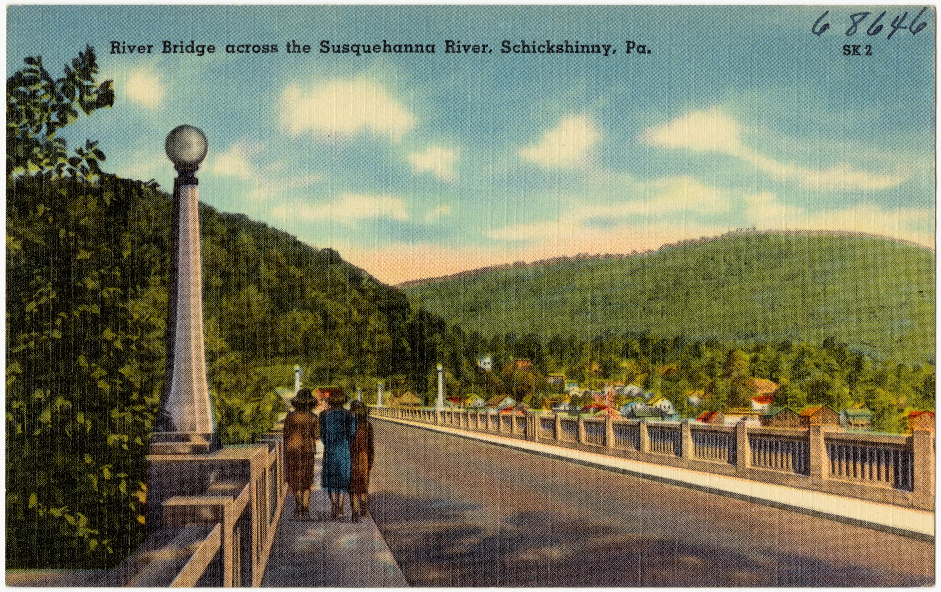 Title: River bridge, across the Susquehanna River, Schickshinny, Pa. Subjects: Bridges Places: Pennsylvania Notes: Title from item. Extent: 1 print (postcard) : linen texture, color ; 3 1/2 x 5 1/2 in. Accession #: 06_10_018323